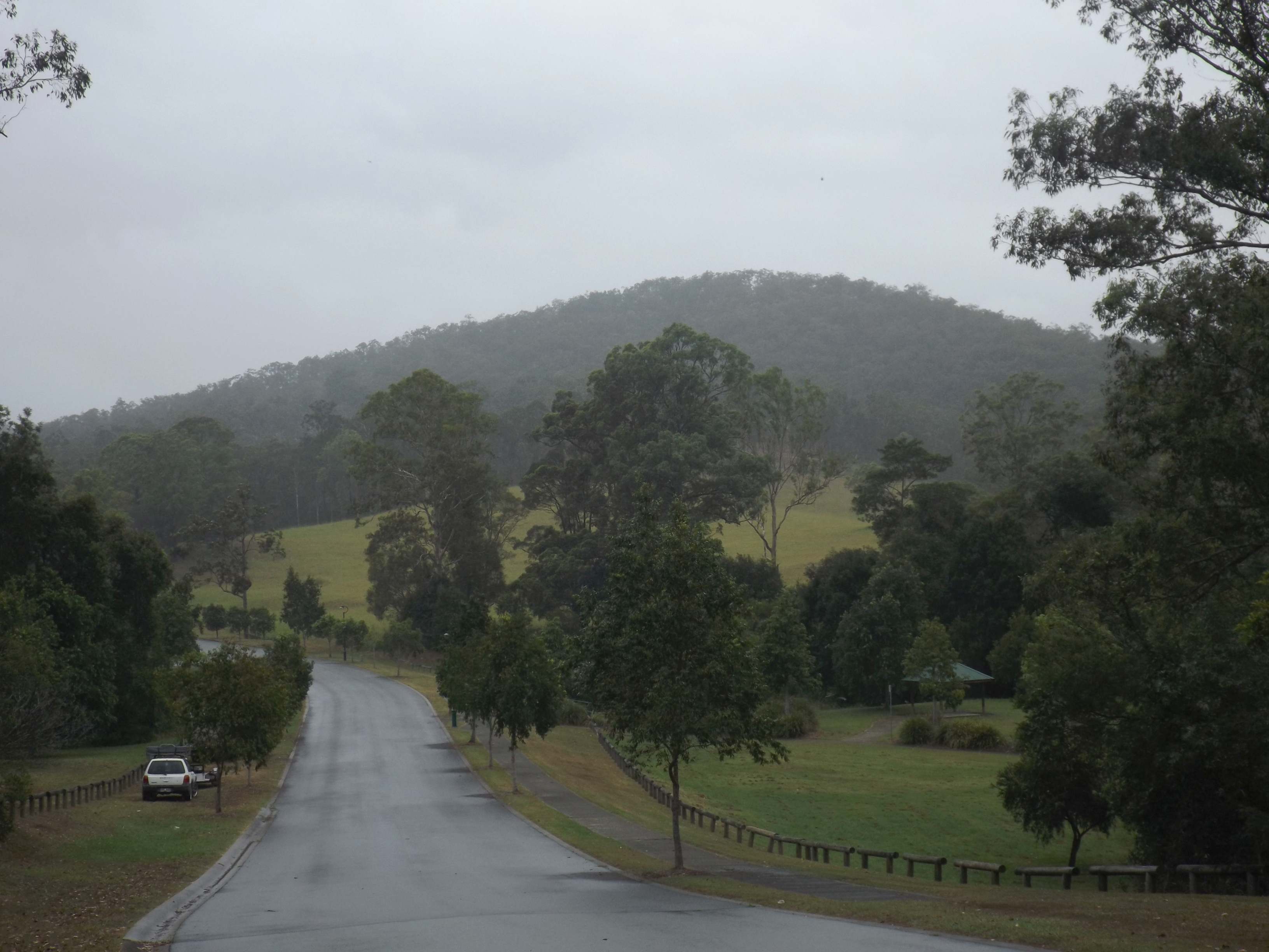 Photo of Nathanvale Road in Mount Nathan, Gold Coast City, Queensland, Australia.